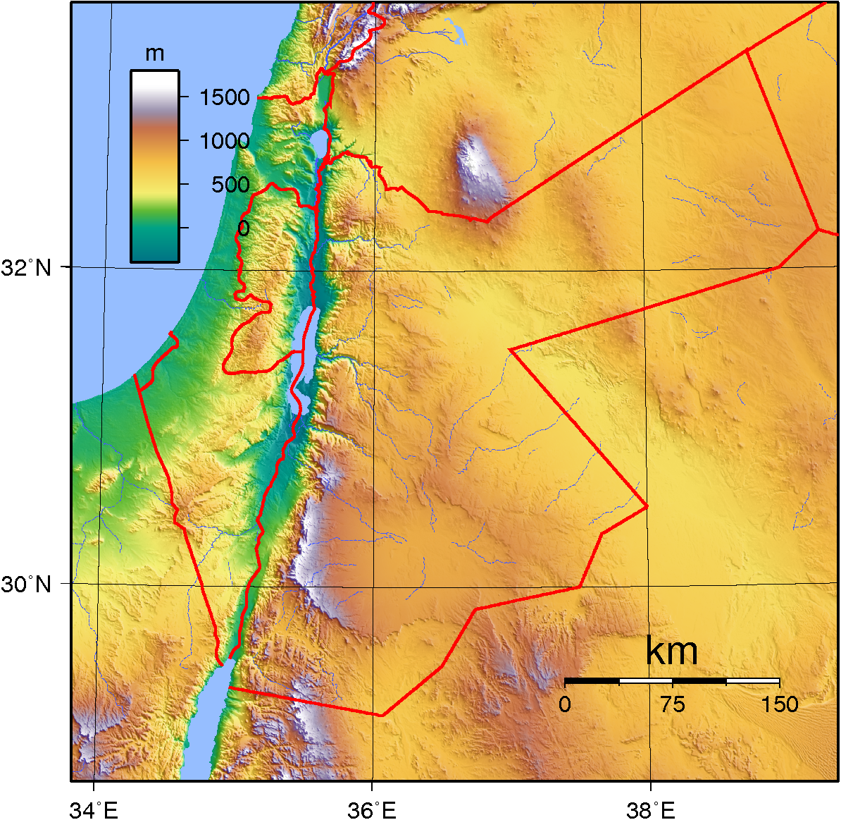 Topographic map of Jordan. Created with GMT from SRTM data.